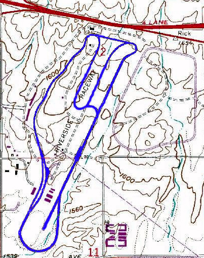 The 1969 to 1989 version of Riverside International Raceway in Riverside, California, the track diagram is in blue from using Adobe Photoshop. Image courtesy of the USGS.